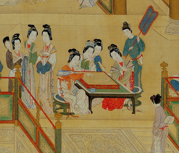 Go players at the imperial court.